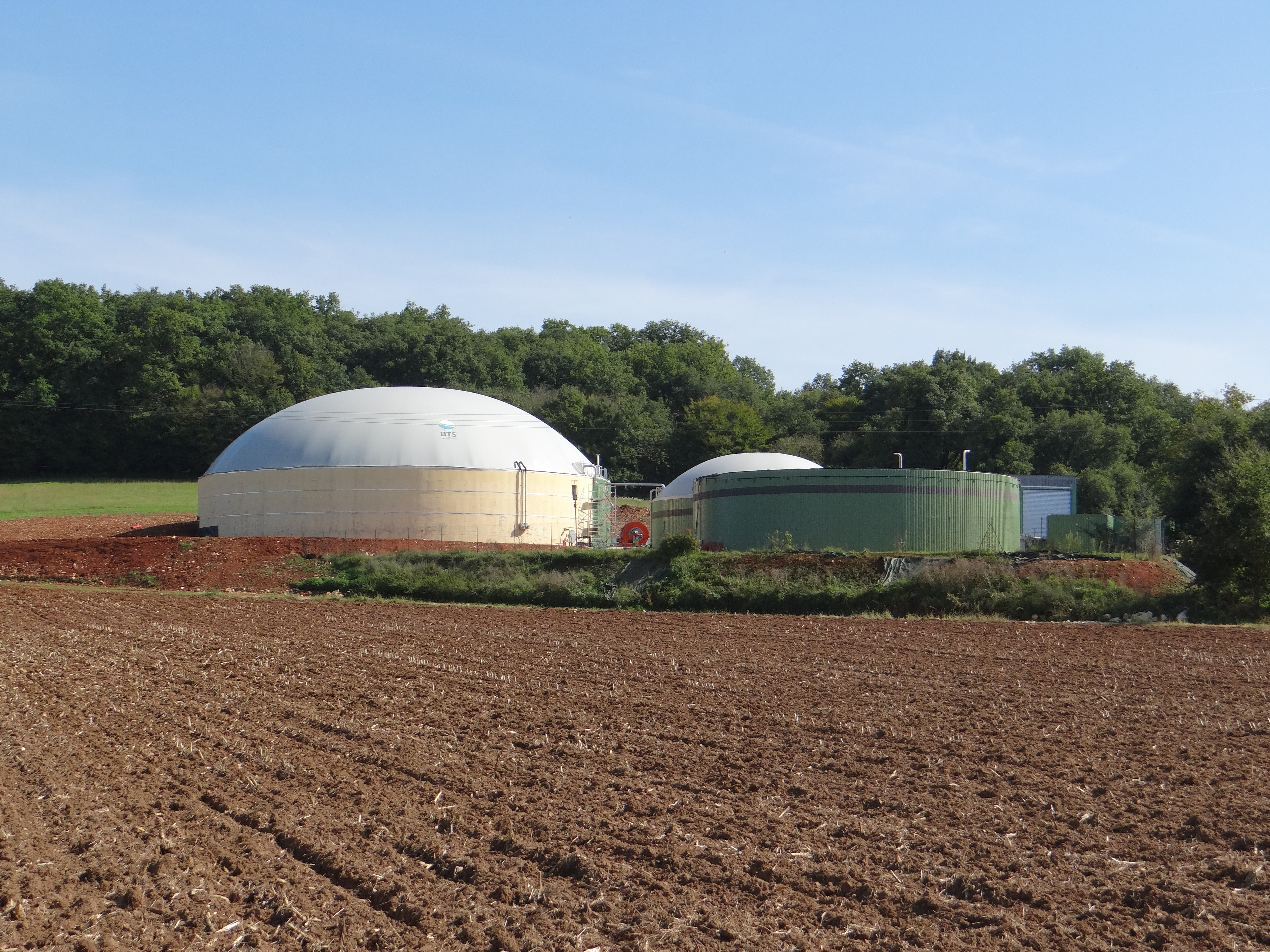 Picture of an anaerobic digestion unit used to transform manure coming from an intensive animal farm into biogas, near Mayrac (Lot, France).